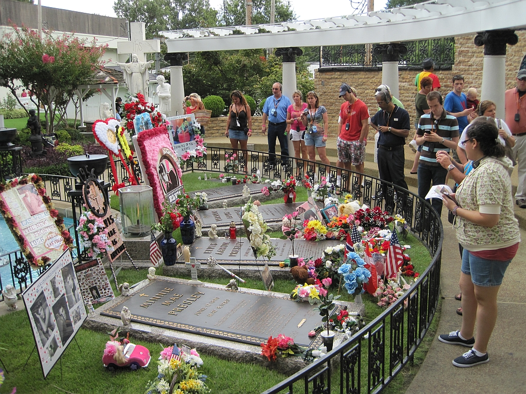 Graceland during Elvis Week 2011